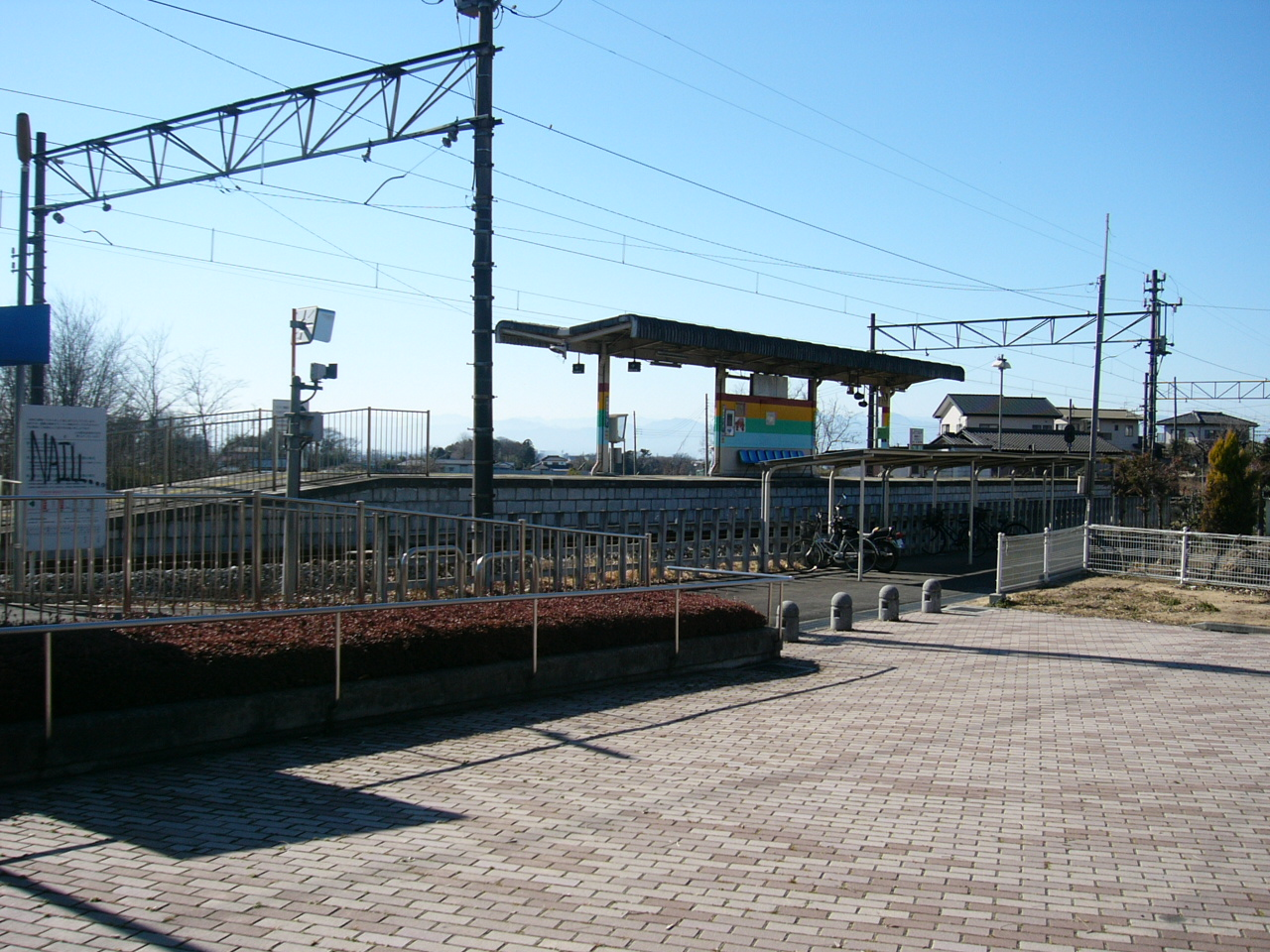 Shinzokekkancenter Station